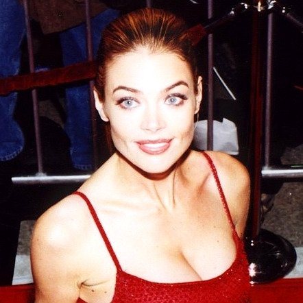 Denise Richards at the movie premiere of The World Is Not Enough in Westwood, Los Angeles